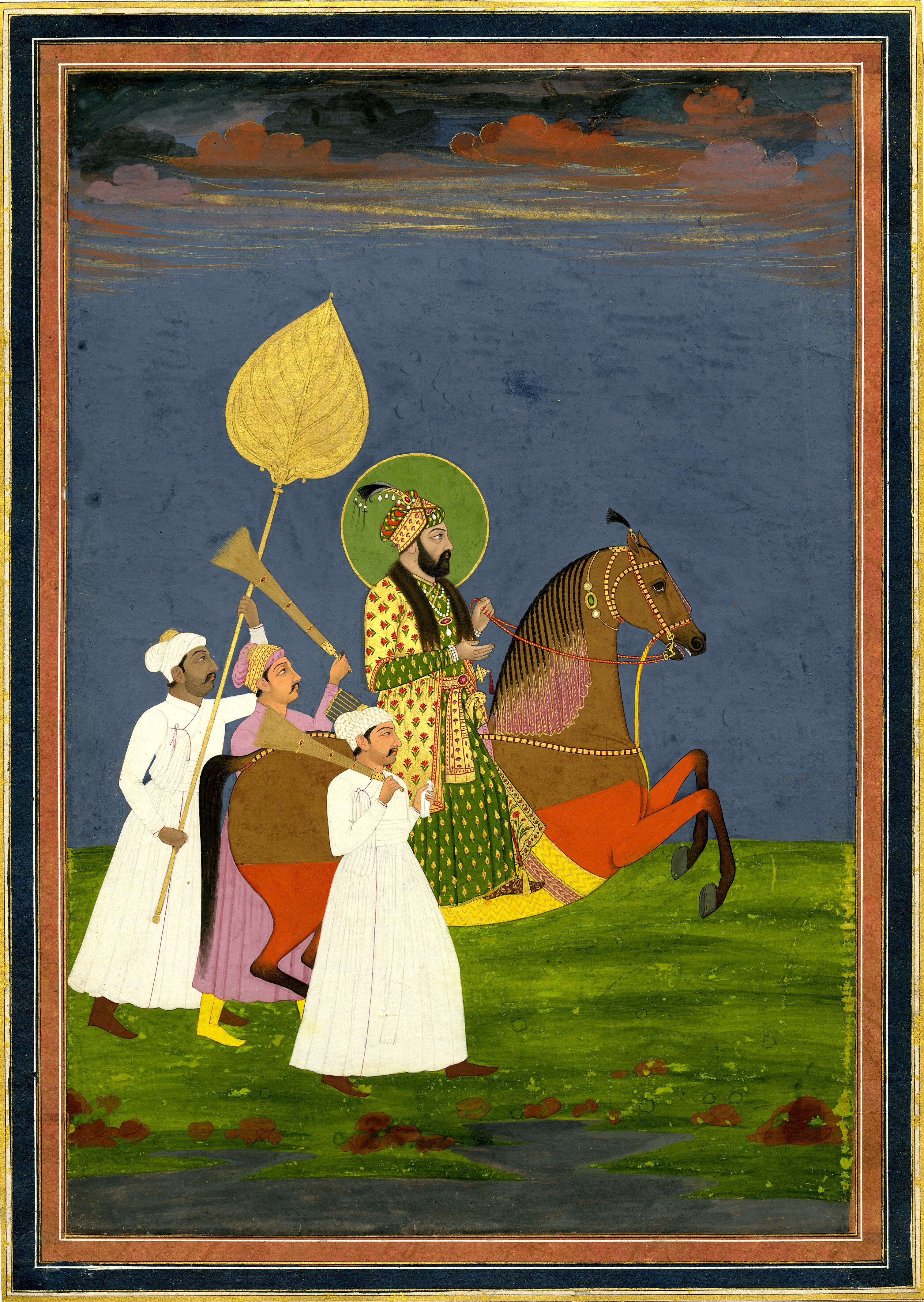 Album leaf. Portrait. Farrúkh Síyár on horseback with attendants. On paper. According to reg' Emperor Muḥammad Sháh.